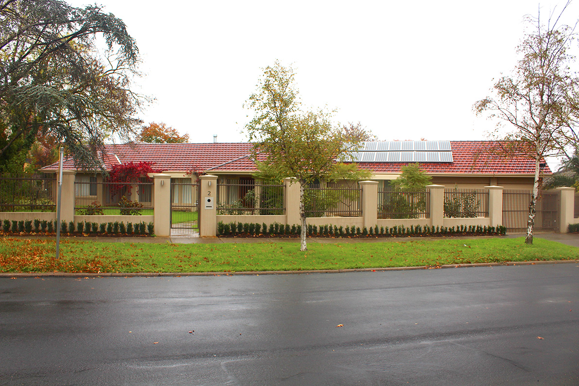 Fraser residence Street View